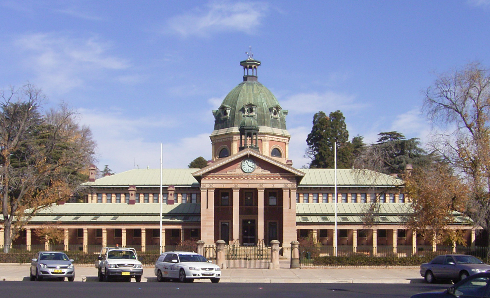 Courthouse at Bathurst, New South Wales, Australia. Facing Russell Street, this Neo-Classical courthouse with octagonal Renaissance dome was designed by the NSW Colonial Architect, James Barnet and completed in 1880. The wings, built as the postal and telegraph offices, were opened in 1877. The entire structure is 81 metres long and 45 metres wide.